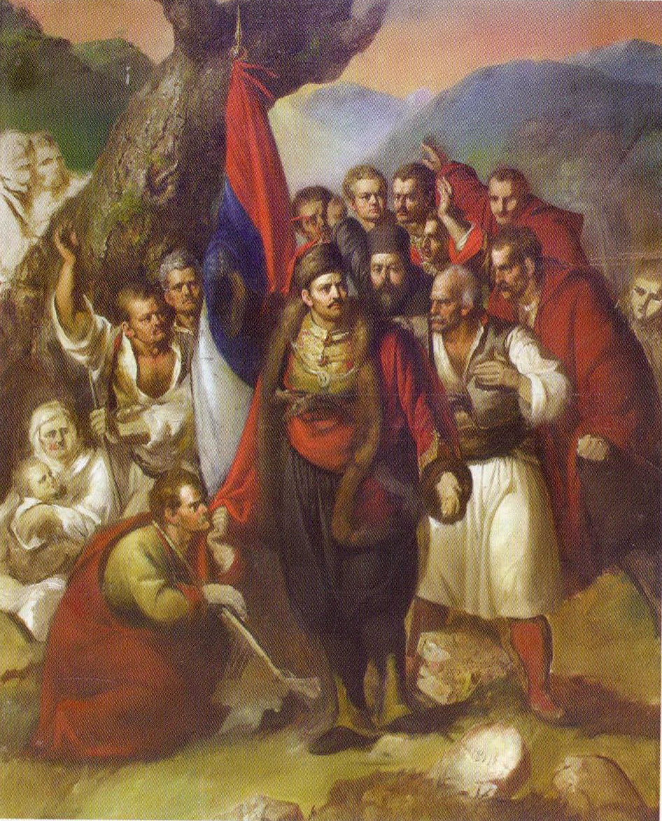 The Uprising at Takovo, Đura Jakšić